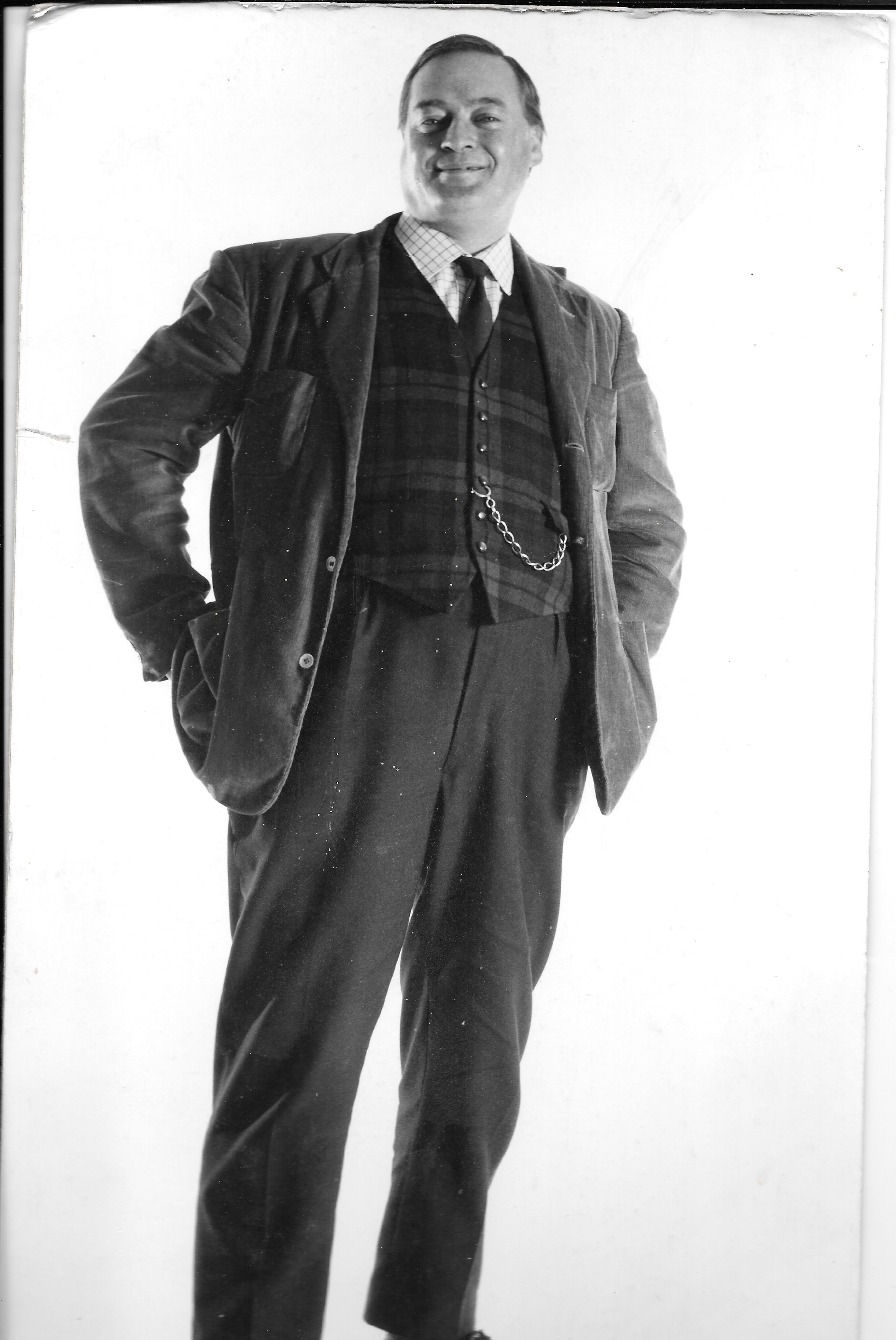 Portret van Jan Verheyden